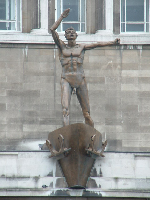 Lewis Statue. This bronze statue is high up on the corner of Lewis Store. This is as the song goes, meet under a statue exceedingly bare. Known to scousers as Dicky Lewis.